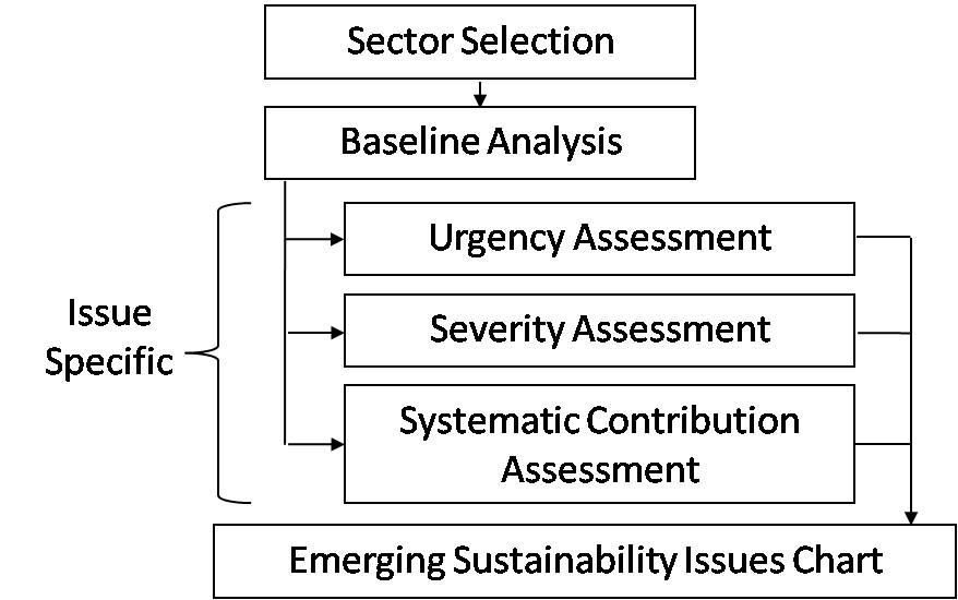 The process of composing an ESI Chart follows: Once a sector is selected for an ESI analysis, a list of relevant Sustainability Issues is assembled. This Baseline Analysis will result in a list of issues outlining the subject sector’s strengths and concerns that impact society and the environment. Next, prioritization colours are assigned to each sustainability issue: Red for Very High Priority; Orange for High Priority; Yellow for Medium Priority, and Green for Low Priority according to its assessment in each of three categories: Urgency, Severity, and Systematic Contribution.